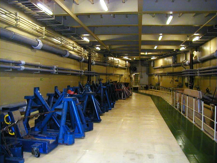 In the Ro-Ro ship Colibri, some supports which will be used for trailers.